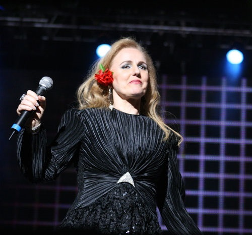 Elizabeth Moisés em 2007 na gravação DVD Filho de Leão